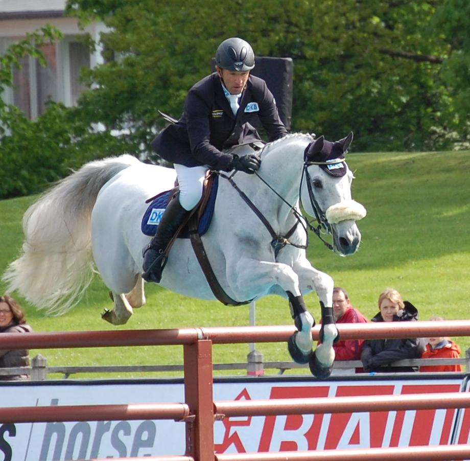 German rider Holger Wulschner with Coeur de Lion, 1st qualifier to the German show jumping derby in Hamburg 2012 (CSI 3*).